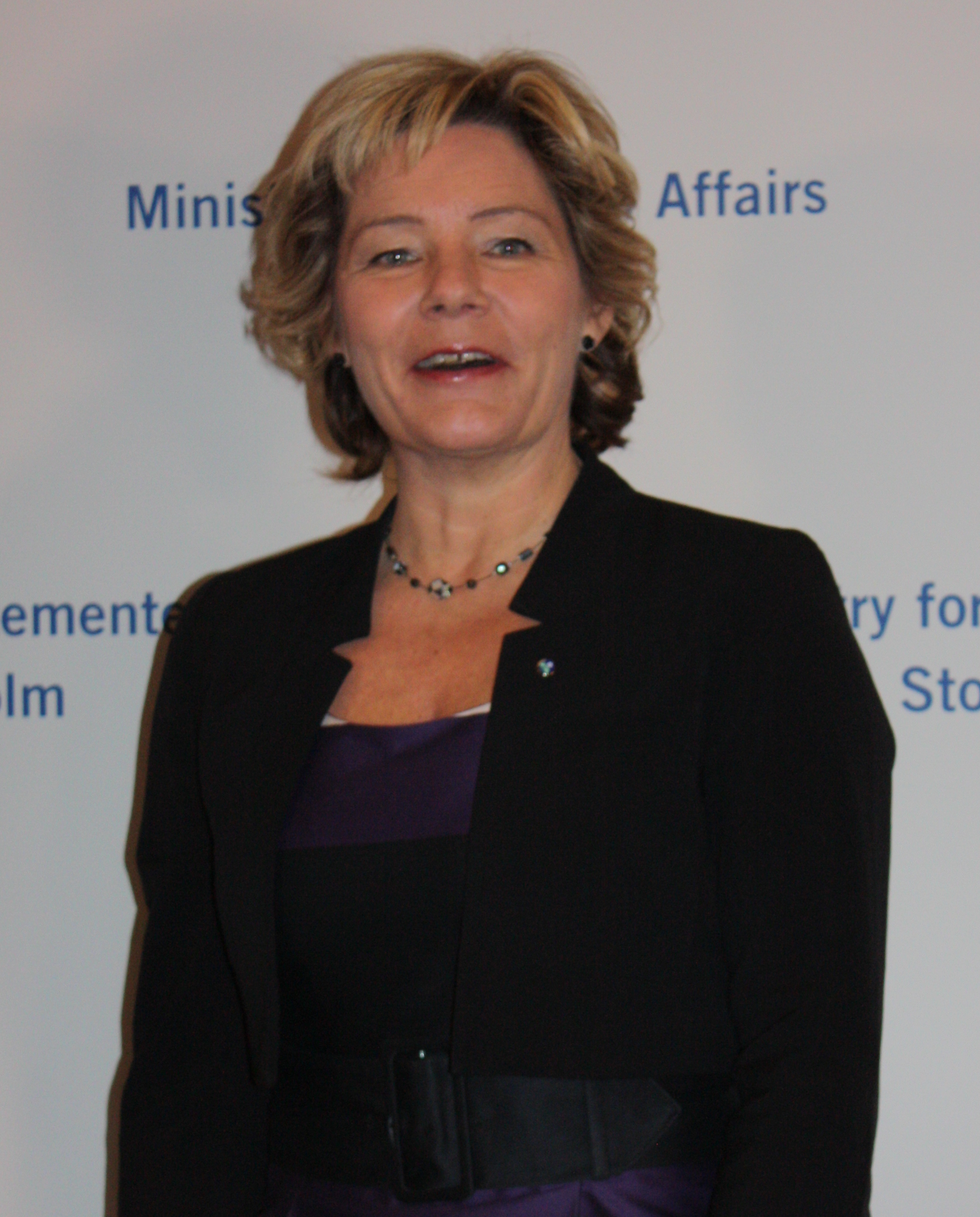 The Swedish Minister of Public Heath, Maria Larsson, representing the Christian Democrats.